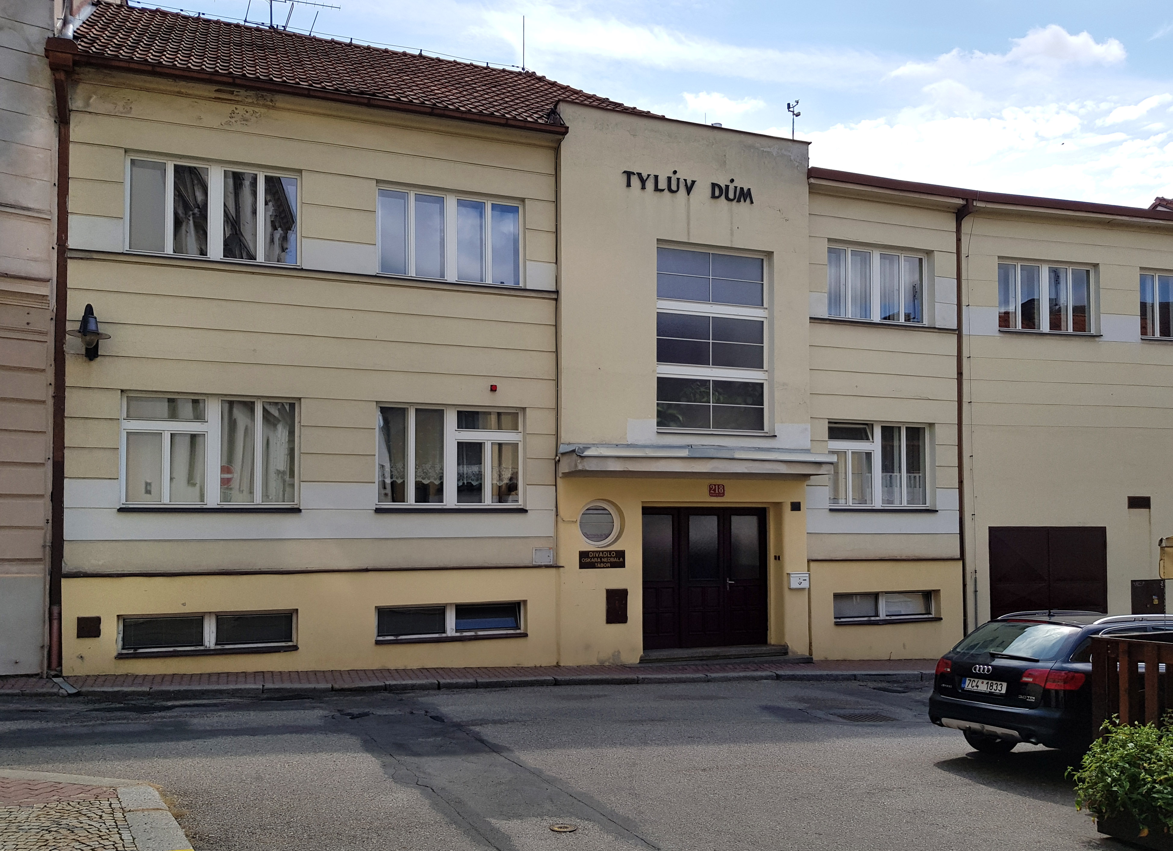 Divadelní street, Tábor, Czech Republic.